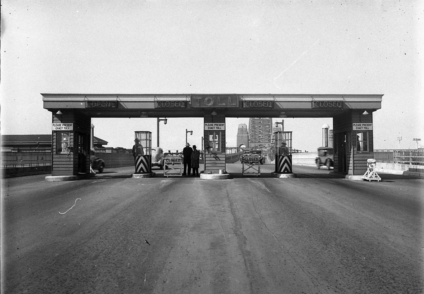 Sydney Harbour Bridge toll gates, photograph by Hall and Co., 1933, State Library of New South Wales, hall_35256